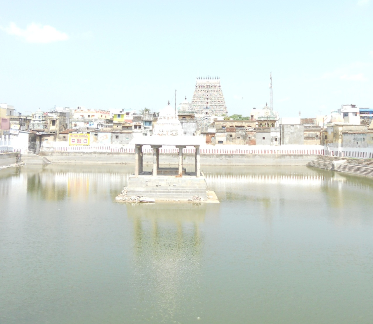 Kumbakonam, Potramarai kulam